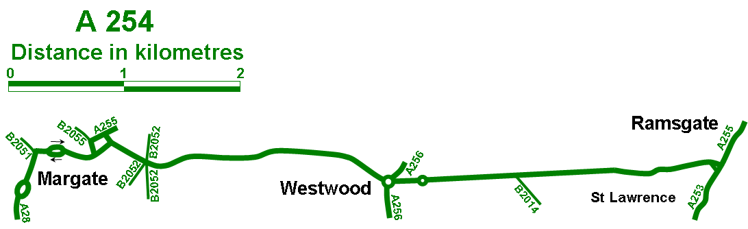 self-created